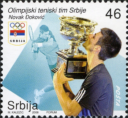 Serbian Olympic Tennis Team - Novak Đoković